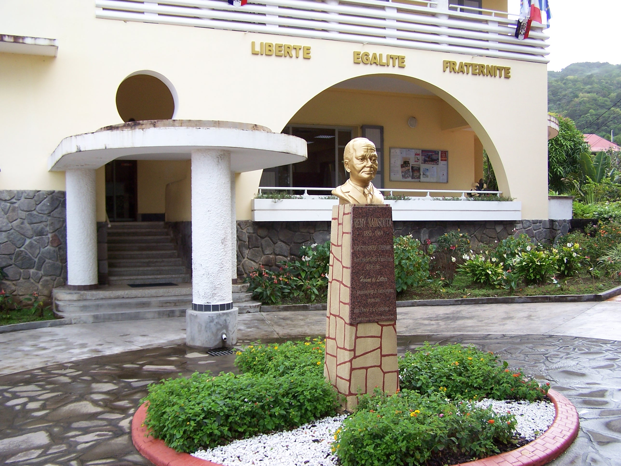 Statue de Rémy Mainsouta, personnalité de Saint-Claude, Guadeloupe